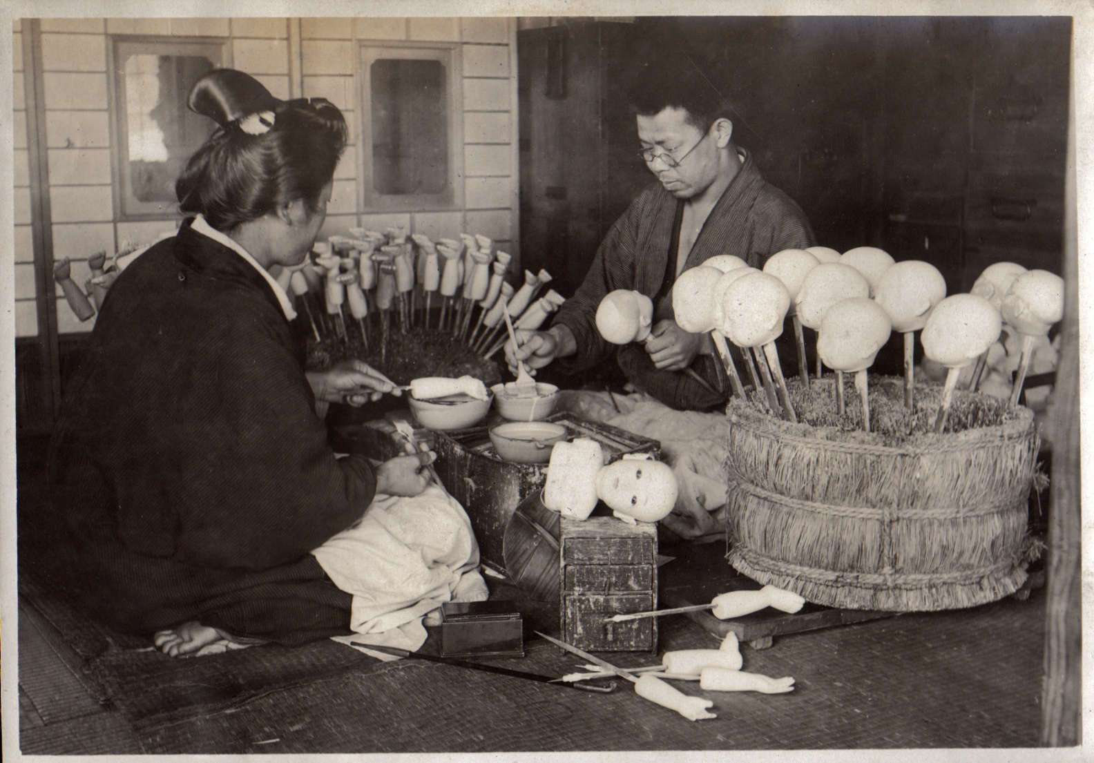 My spouse's uncle Elstner Hilton took this photo in Japan between 1914 and 1918.